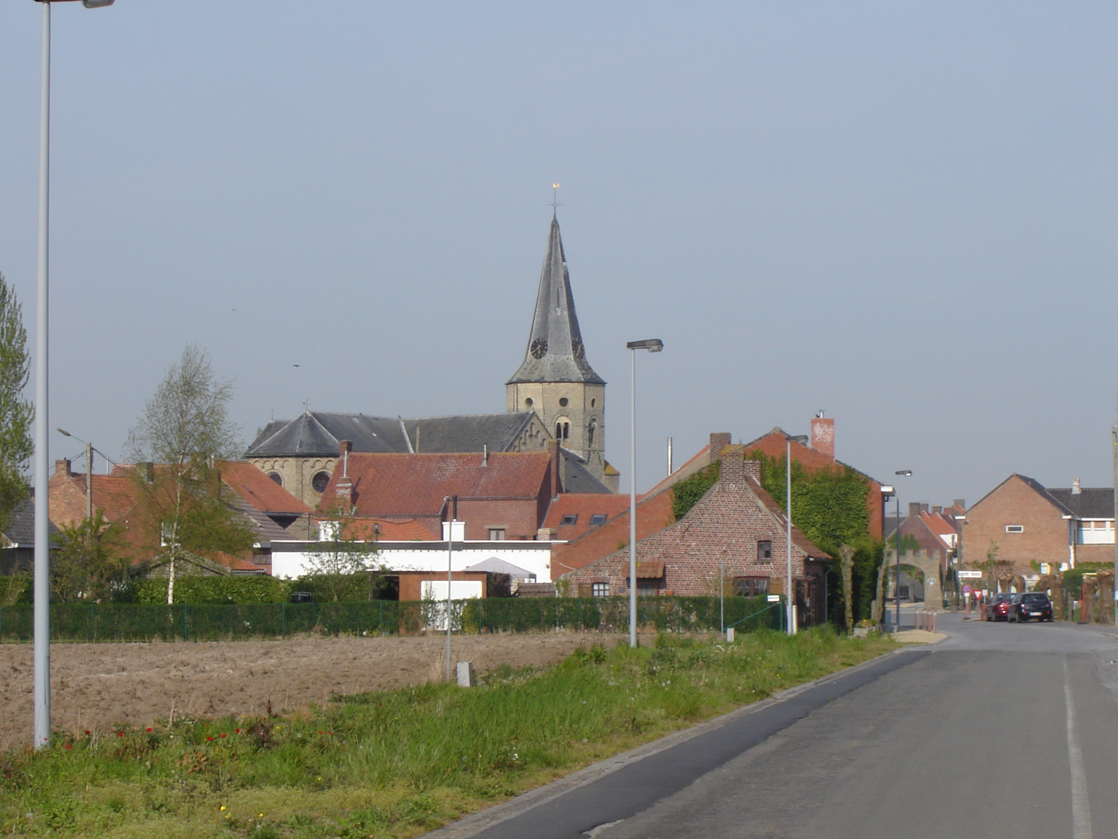 View on village centre of Bovekerke, seen from Vladslostraat street, with the church of Saint Gertrude. Bovekerke, Koekelare, West-Flanders, Belgium